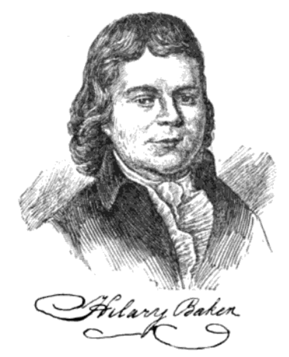 Image of Hilary Baker from Memorial History of the City of Philadelphia, published in 1895 by New York History Company. Edited by John Russell Young.